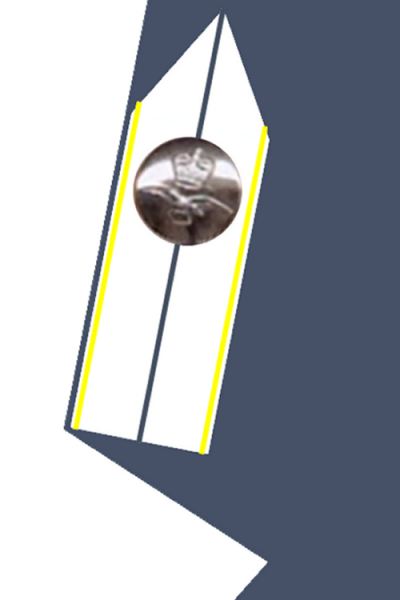 Rank badge of a RAF Officer Cadet